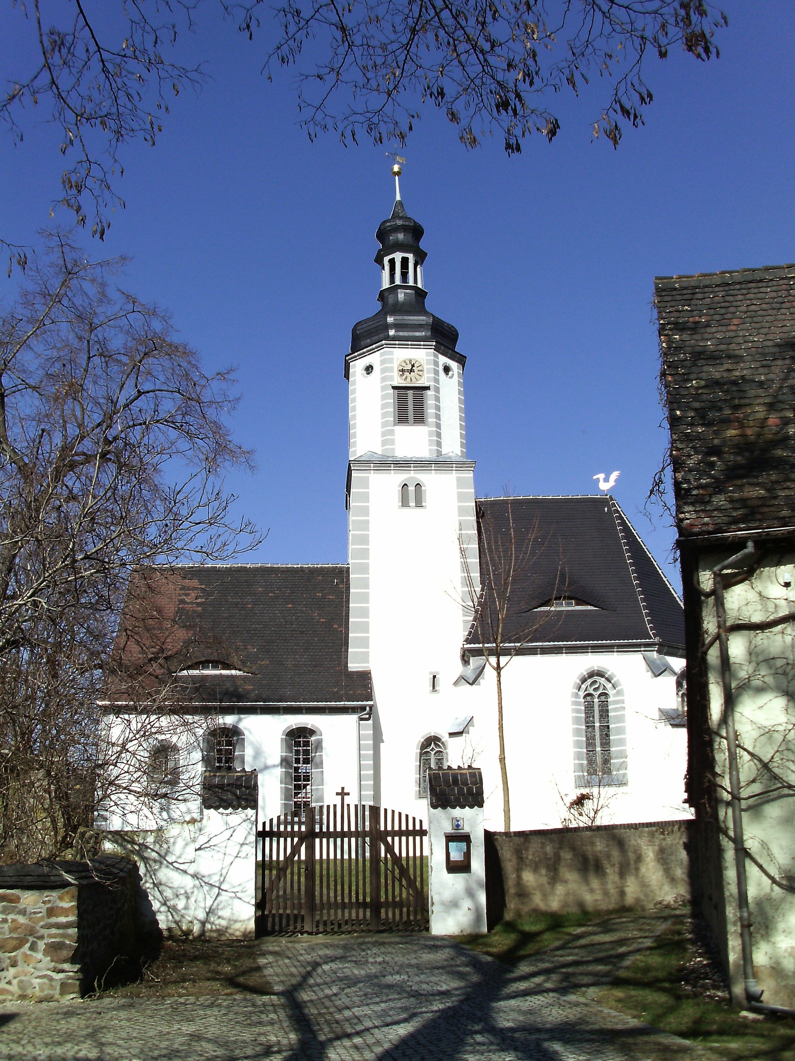 Church of the village of Neichen (Trebsen/Mulde, Leipzig district, Saxony)